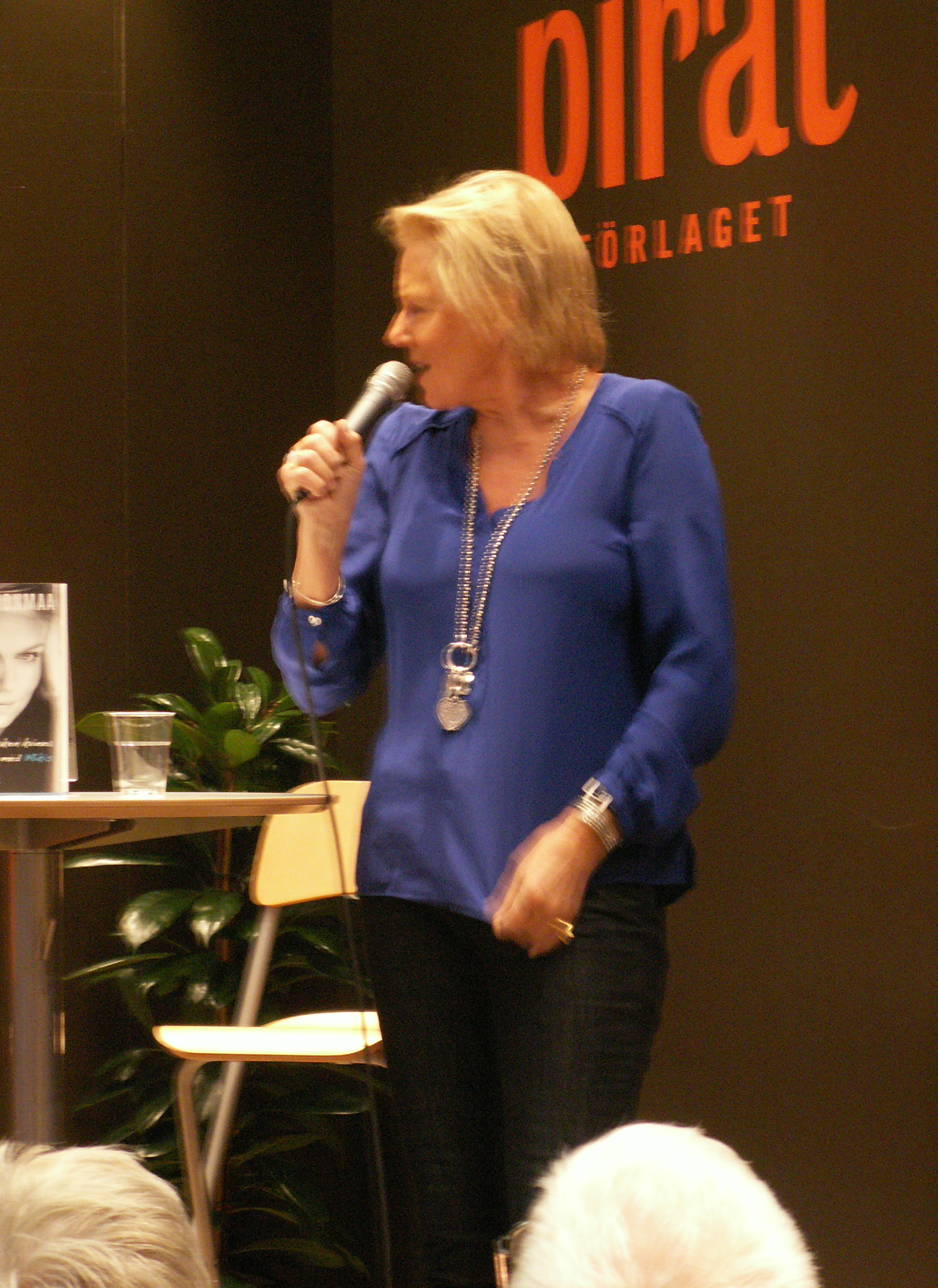 Arja Saijonmaa at the 2011 Göteborg Book Fair.